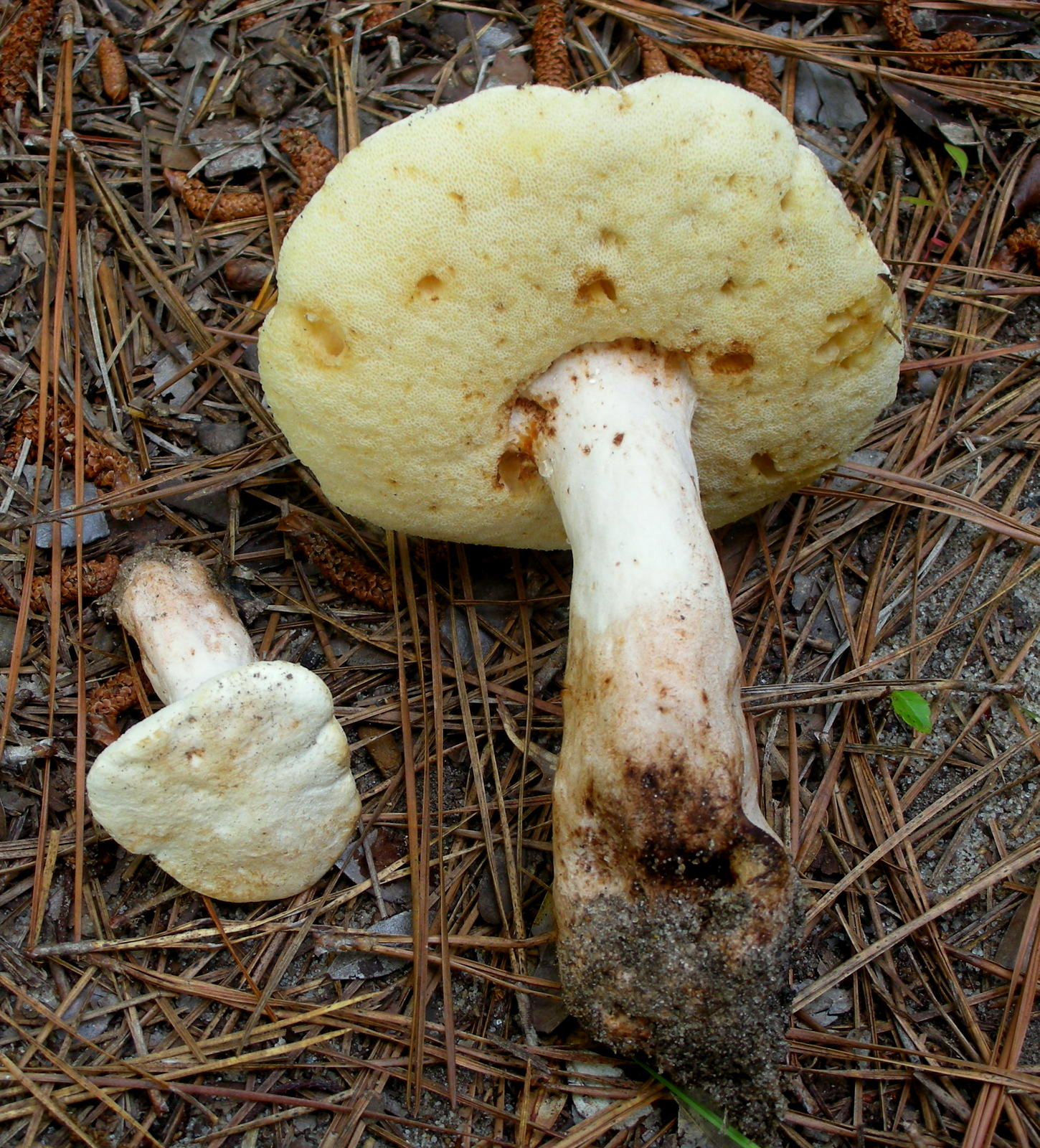 Fruit bodies of the bolete fungus Gyroporus subalbellus Murrill. Photographed in Big Thicket, Hardin Co., Texas, USA.